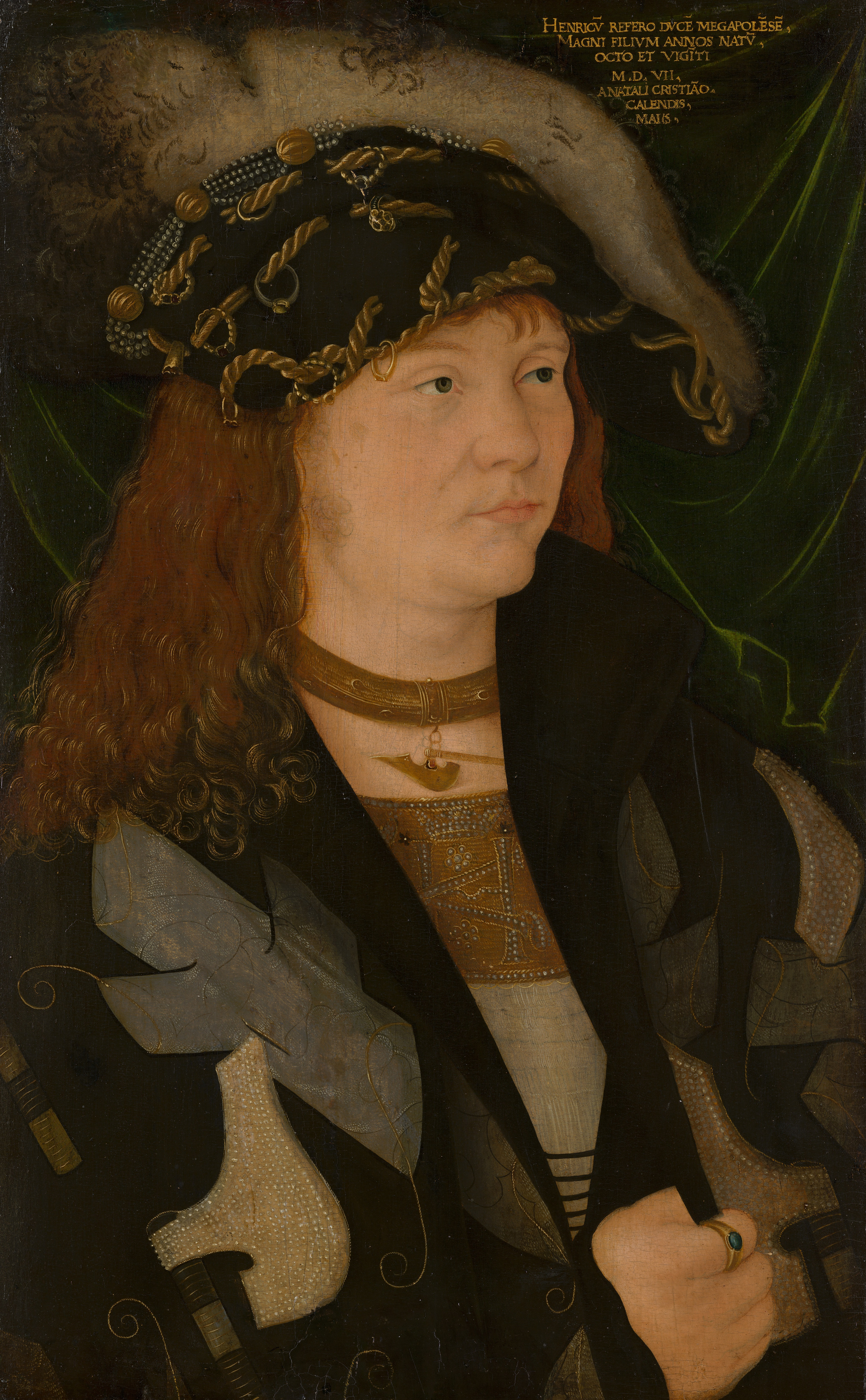 Henry’s cloak has a pattern of battleaxes and tree trunks. There is also an axe hanging on his chain. Yet Henry’s nickname was ‘the Peaceful’. His hat is decorated with ostrich feathers, strings of pearls and cords with golden rings. Although it looks rather eccentric, Henry’s outfit was the height of fashion among the German nobility of the day.